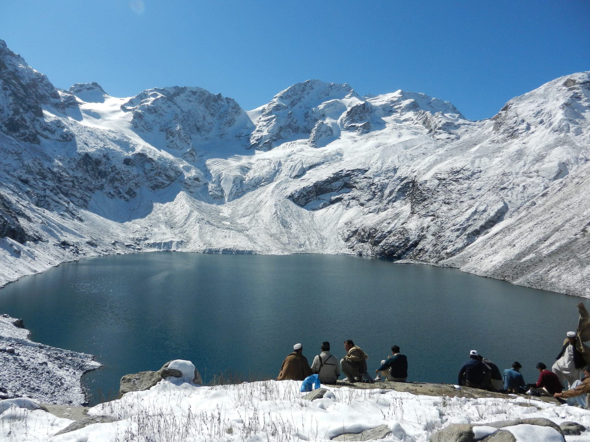 Kumrat, upper Dir, in Jhaz Banda exactly...total of 6 to 10 hours walk